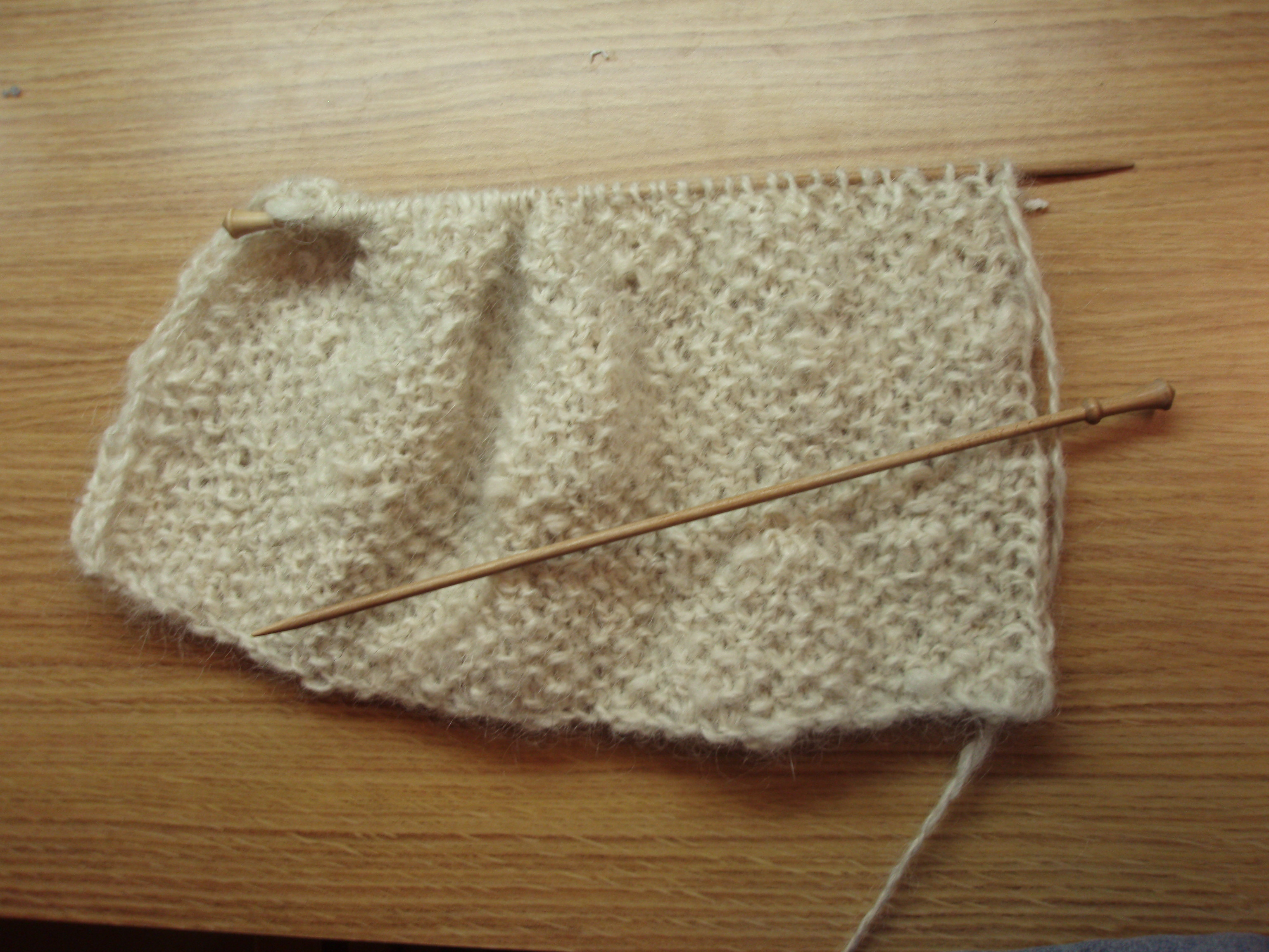 A picture of a scarf being knitted on single point needles out of homespun yarn